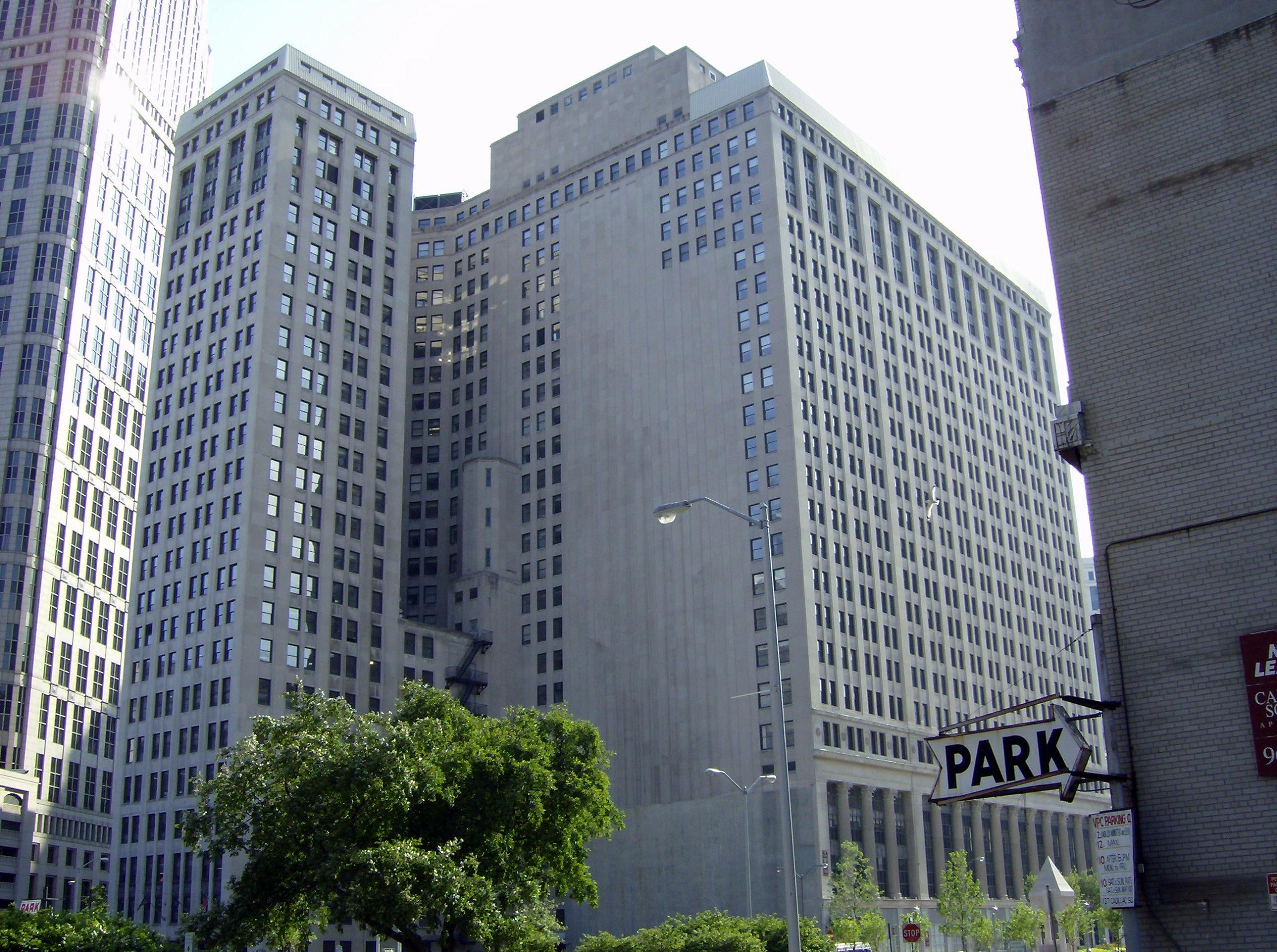 1st National Building — Detroit Financial District. self made